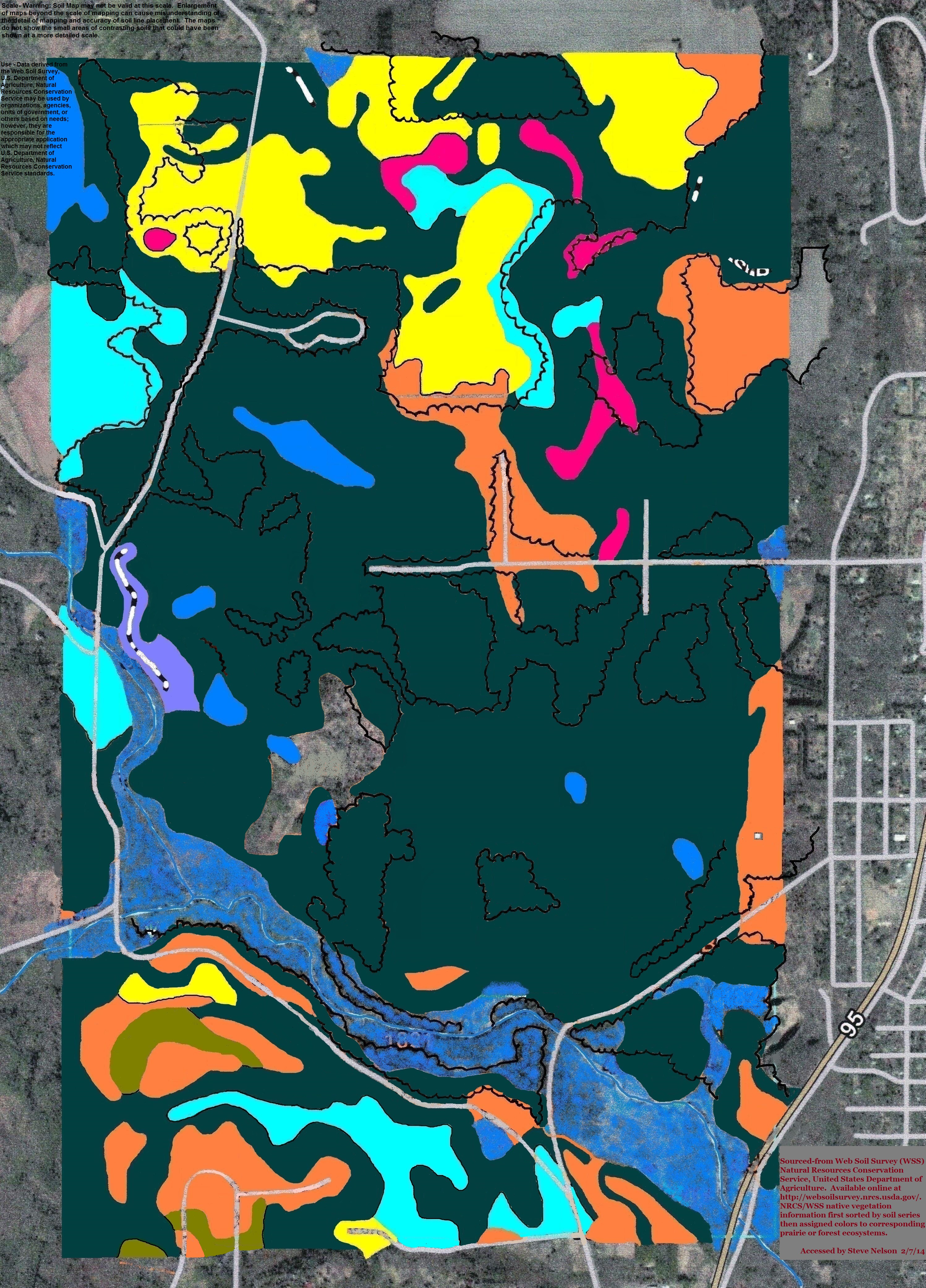 Colored map shows native vegetation in and around the Belwin Conservancy lands near Afton, Minnesota in Washington County. Viewer can see a mixture of prairie, savanna and forest soils. See native vegetation pie chart for Washington County native vegetation color codes.